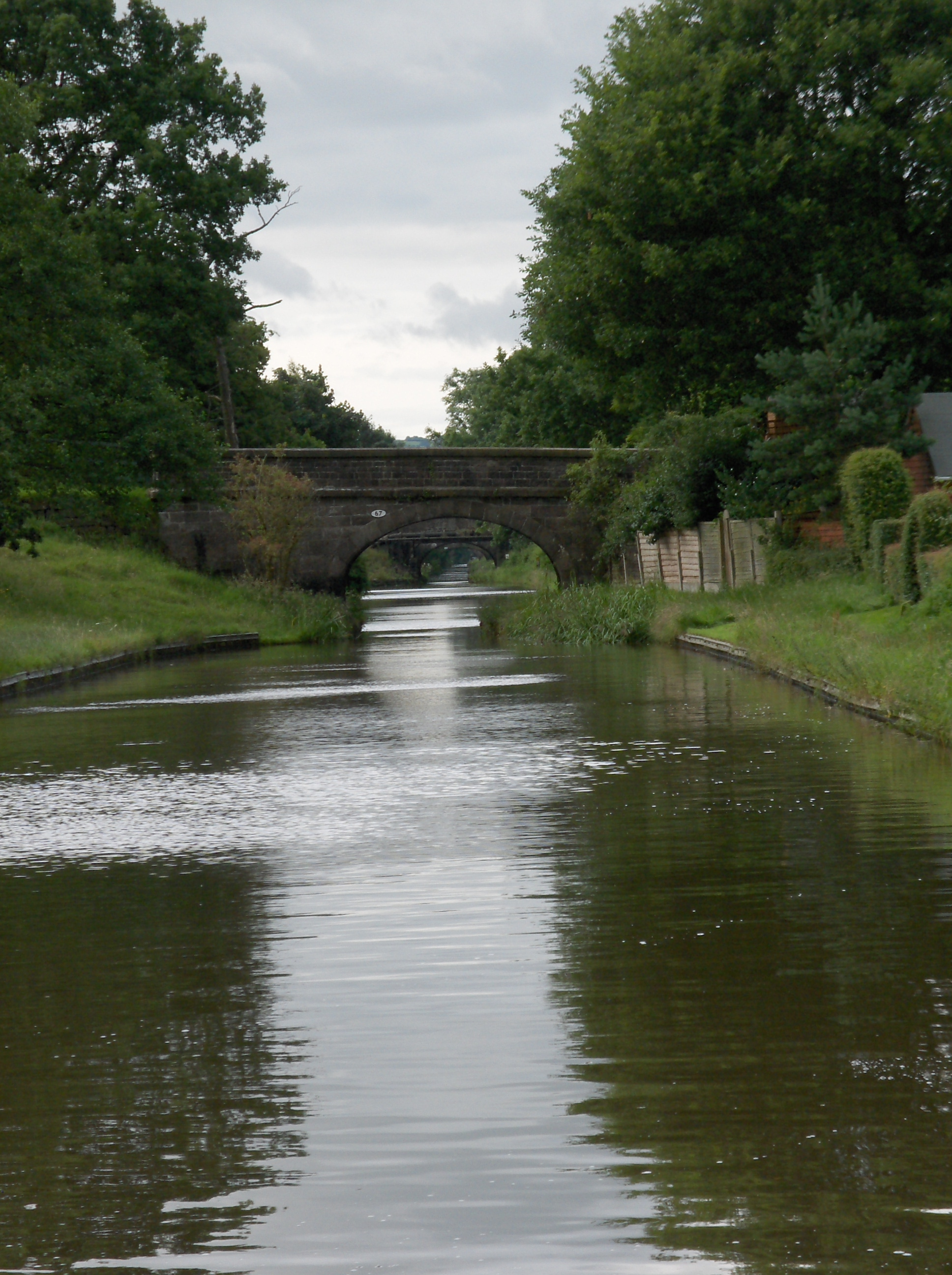 Lower level of the Macclesfield Canal between Bosley and Congleton